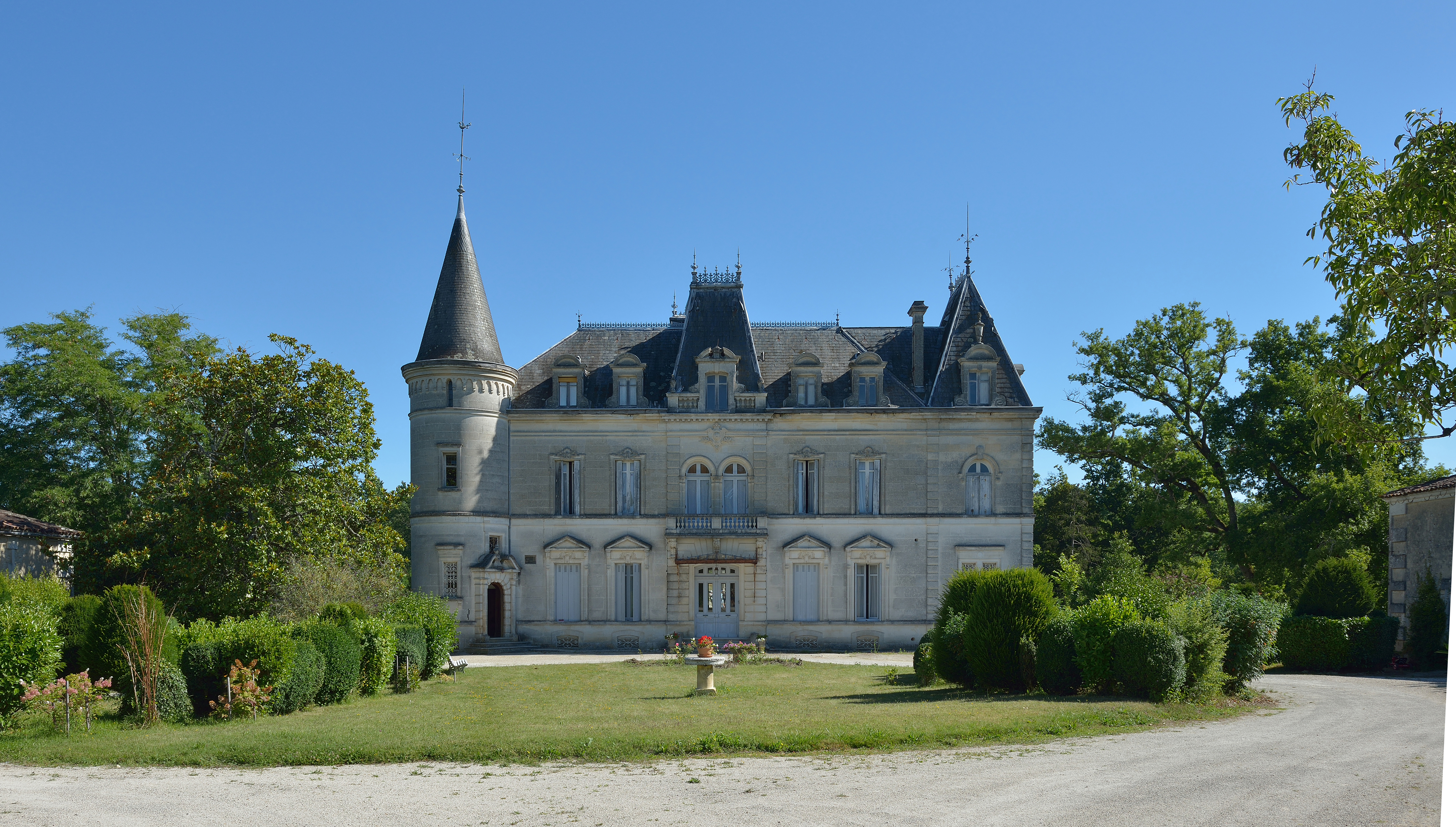 Chateau_de_Font_Joyeuse in Louzac-Saint-André in France